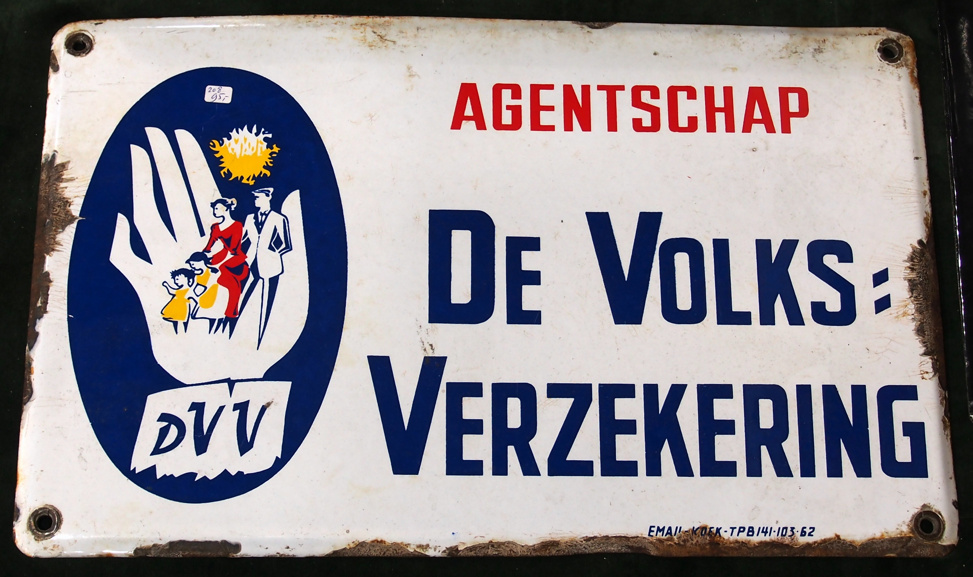 Photographed at Jaarbeurs Utrecht.